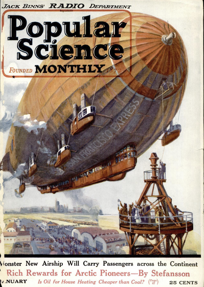 Cover of Popular Science, January 1923